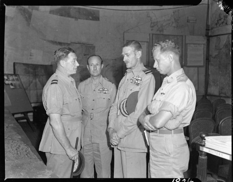 IWM caption : The new Allied Air Commander-in-Chief, South East Asia, Air Marshal Sir Keith Park, having a discussion with senior officers in the War Room at Headquarters Strategic Air Force, Eastern Air Command in Calcutta, India, during a visit. They are, (left to right): Air Commodore F J Mellersh, Air Commander of the Strategic Air Force Air Vice-Marshal A C Stevens, Air Officer in charge of Administration, RAF in Bengal and Burma Air Marshal Sir Keith Park Colonel R Hall of the USAAF